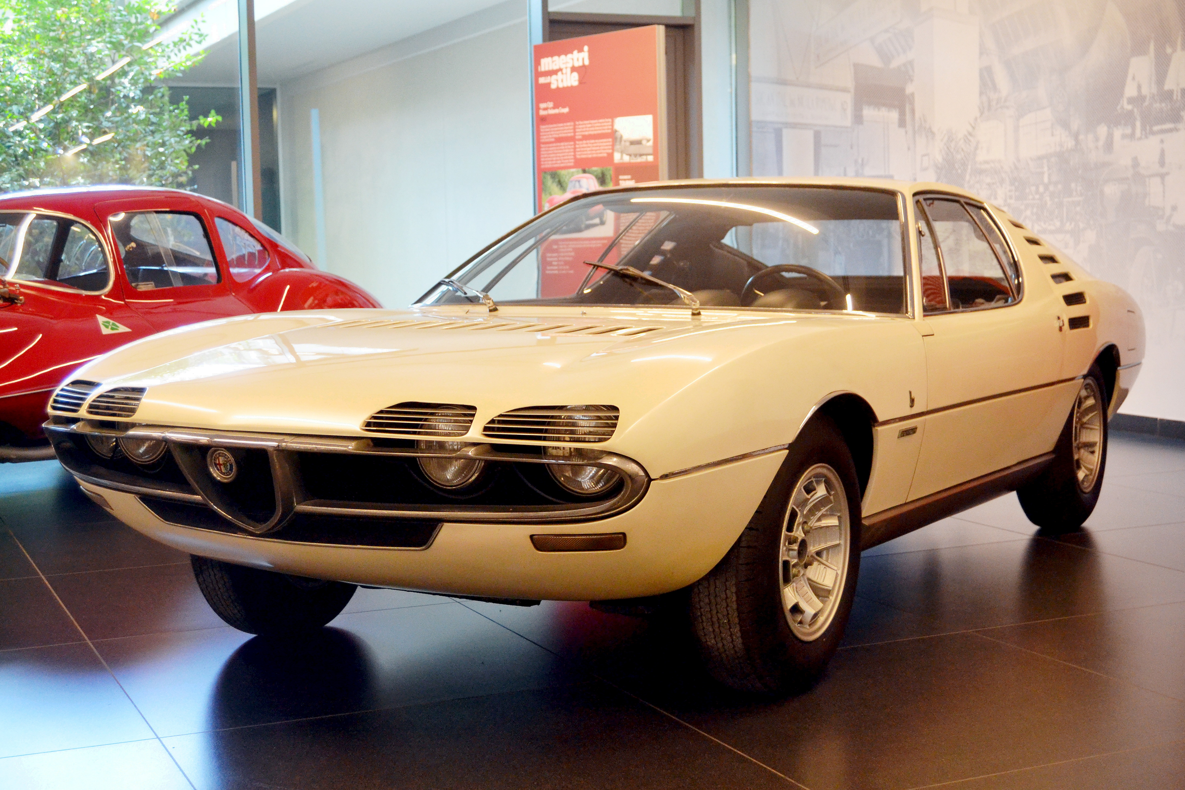 Alfa Romeo Montreal Prototype (1967); Museo Storico Alfa Romeo, Arese, Milano, Italy